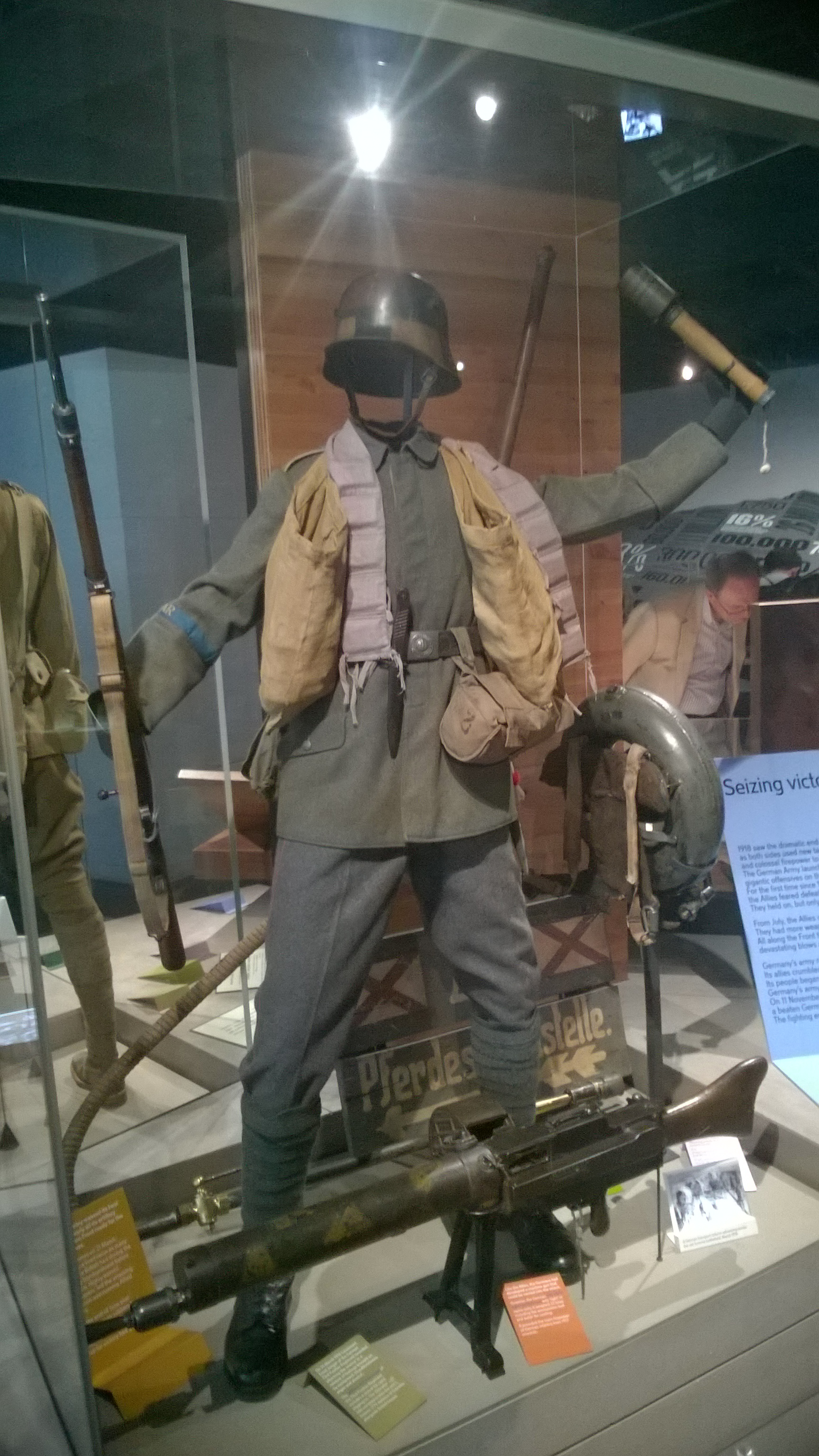 Late WWI uniform of the German 73rd Fusilier Regiment.